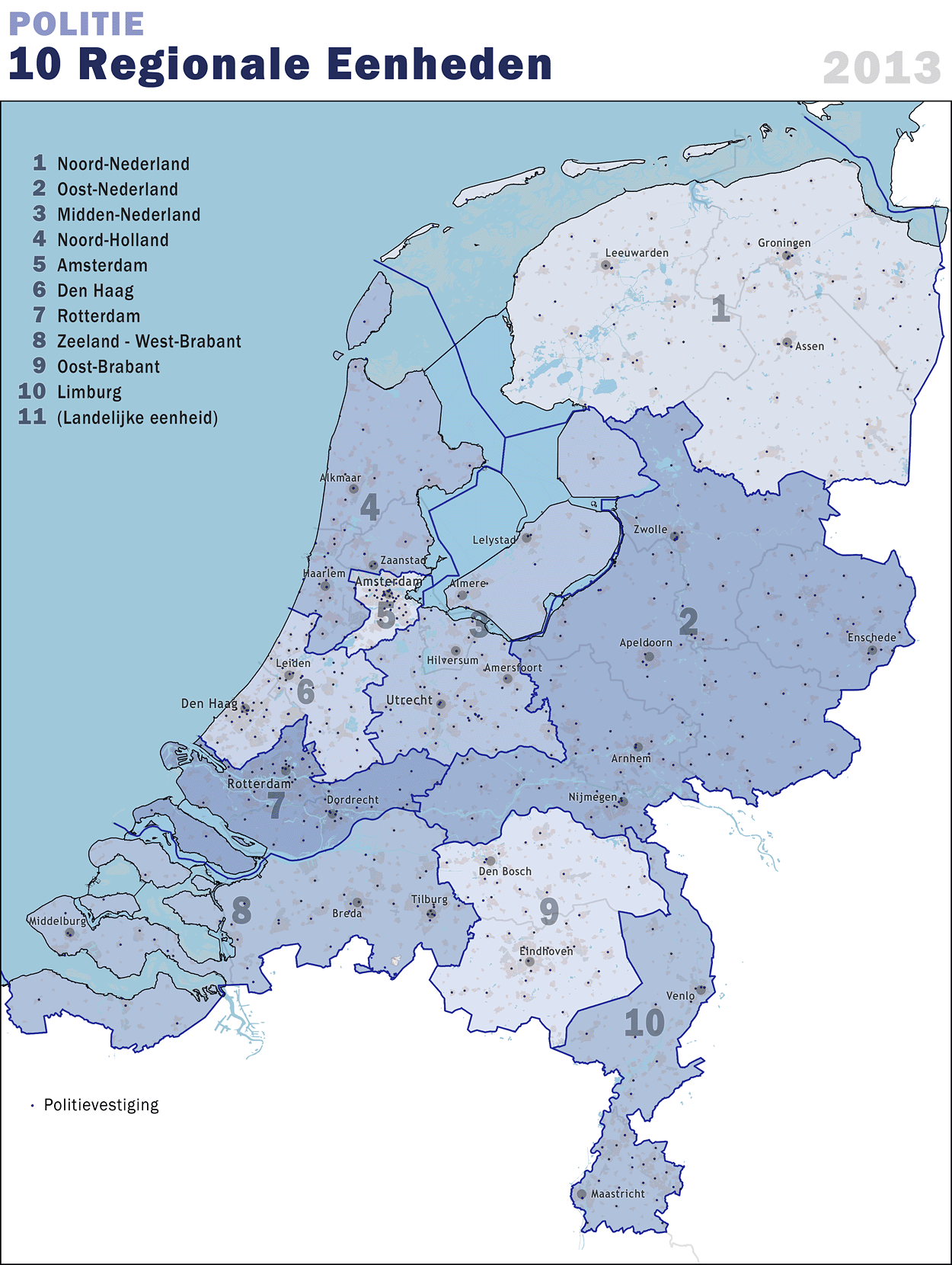 Map of the Dutch Police Units as of 1-Jan-2013. Officially, there is one police region, consisting of 10 units.